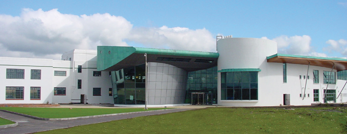 The extension of the renovated India of Inchinnan building, Renfrewshire from the south.